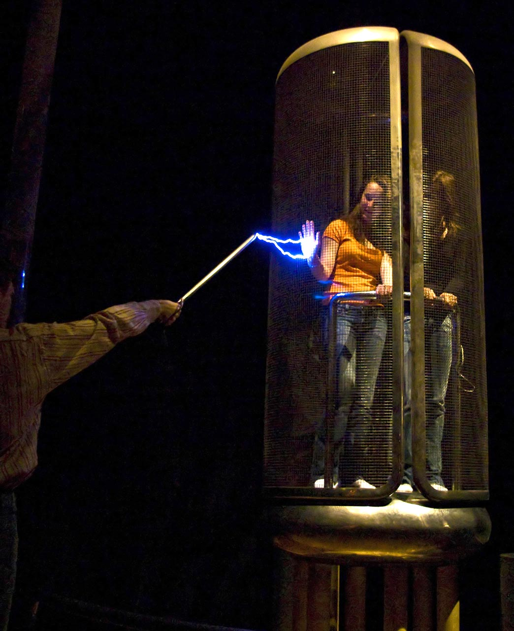 A Faraday cage in operation: the women inside are protected from the electric arc by the cage. Photograph taken at the Palais de la Découverte in Paris (Discovery Palace).